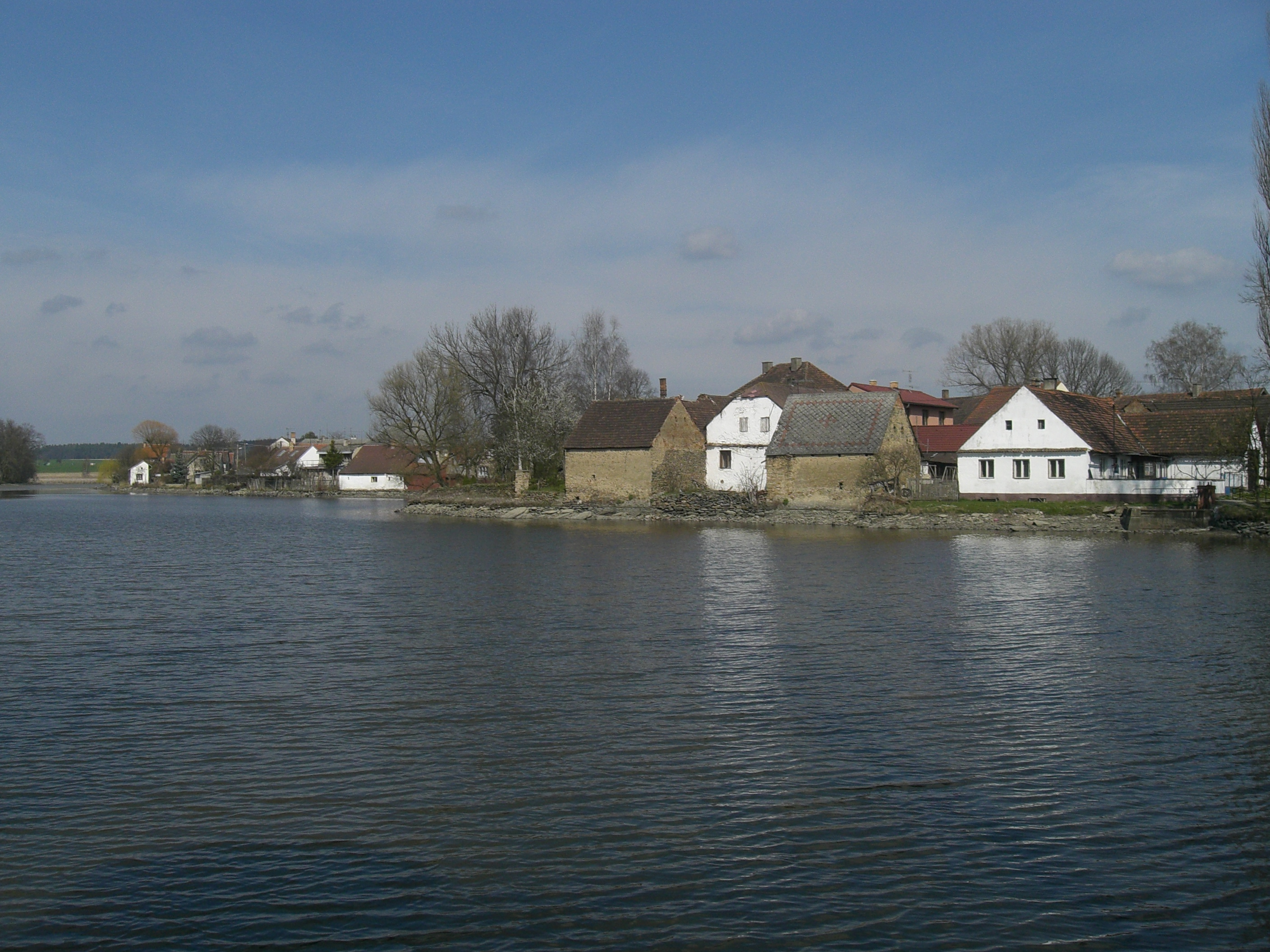 Veselíčko village in the Písek District, Czech Republic